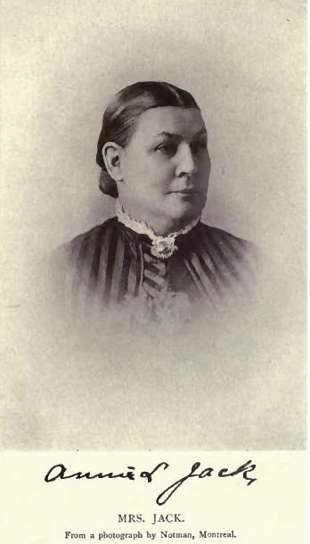 Annie Jack by William Notman